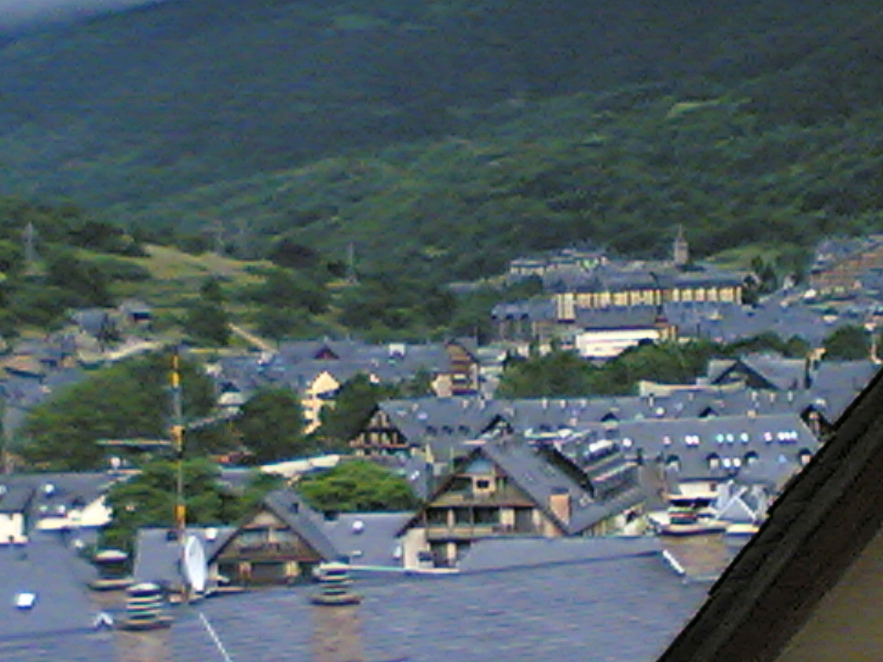 As seen from the hotel room window